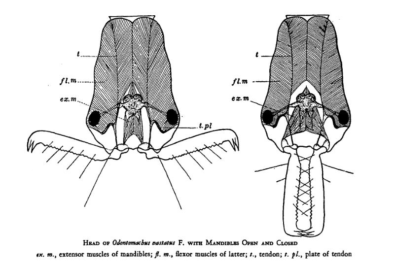 Head of an Odontomachus hastatus Fabricius, 1804 ant, showing musculature (Formicidae)